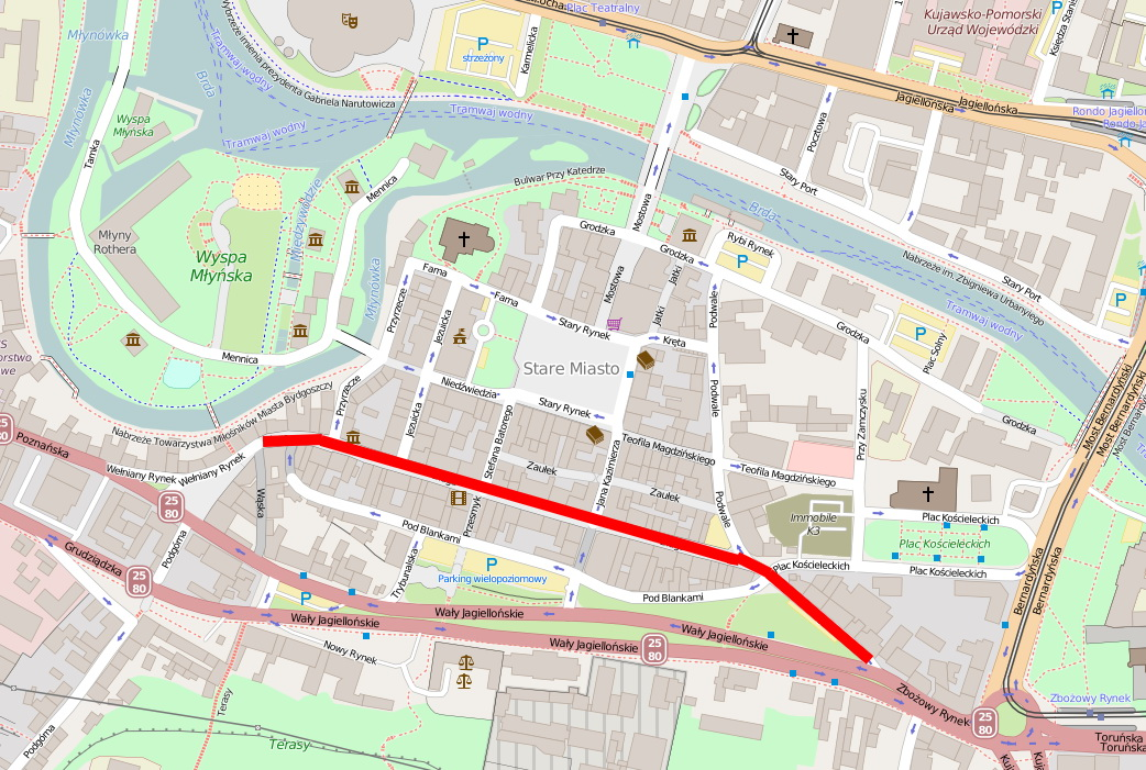 Dluga street on Bydgoszcz Map